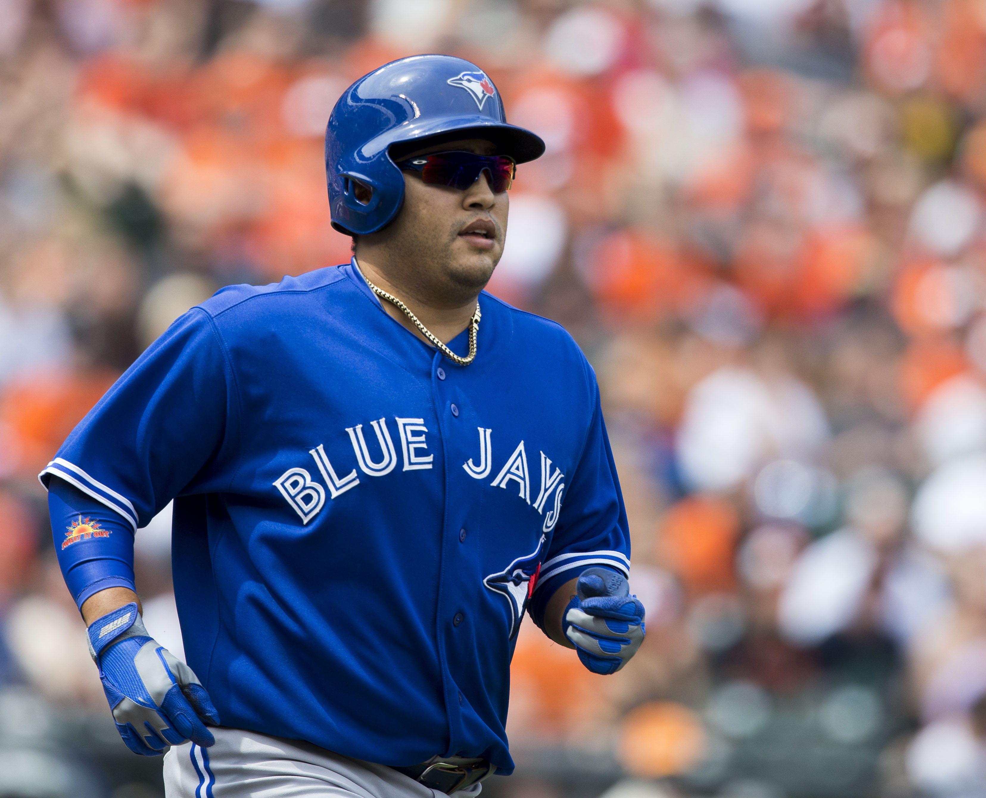 Blue Jays at Orioles 4/13/14